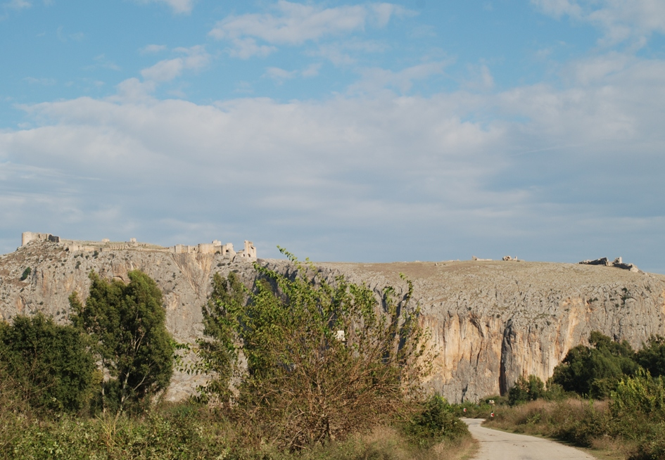 Castle of Anavarza